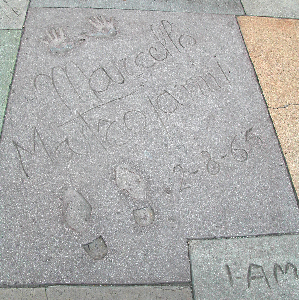 Marcello Mastroianni's footprints at the Grauman's Chinese Theatre, Los Angeles (California)